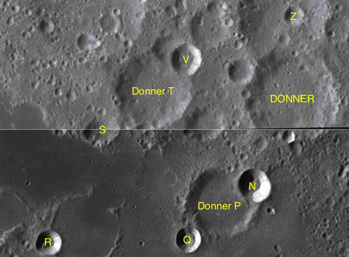 Parts of the charts LAC-100. LAC-116 used for the presentation